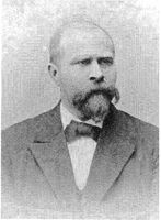 Fríðrikur Petersen, provost and unionist politician